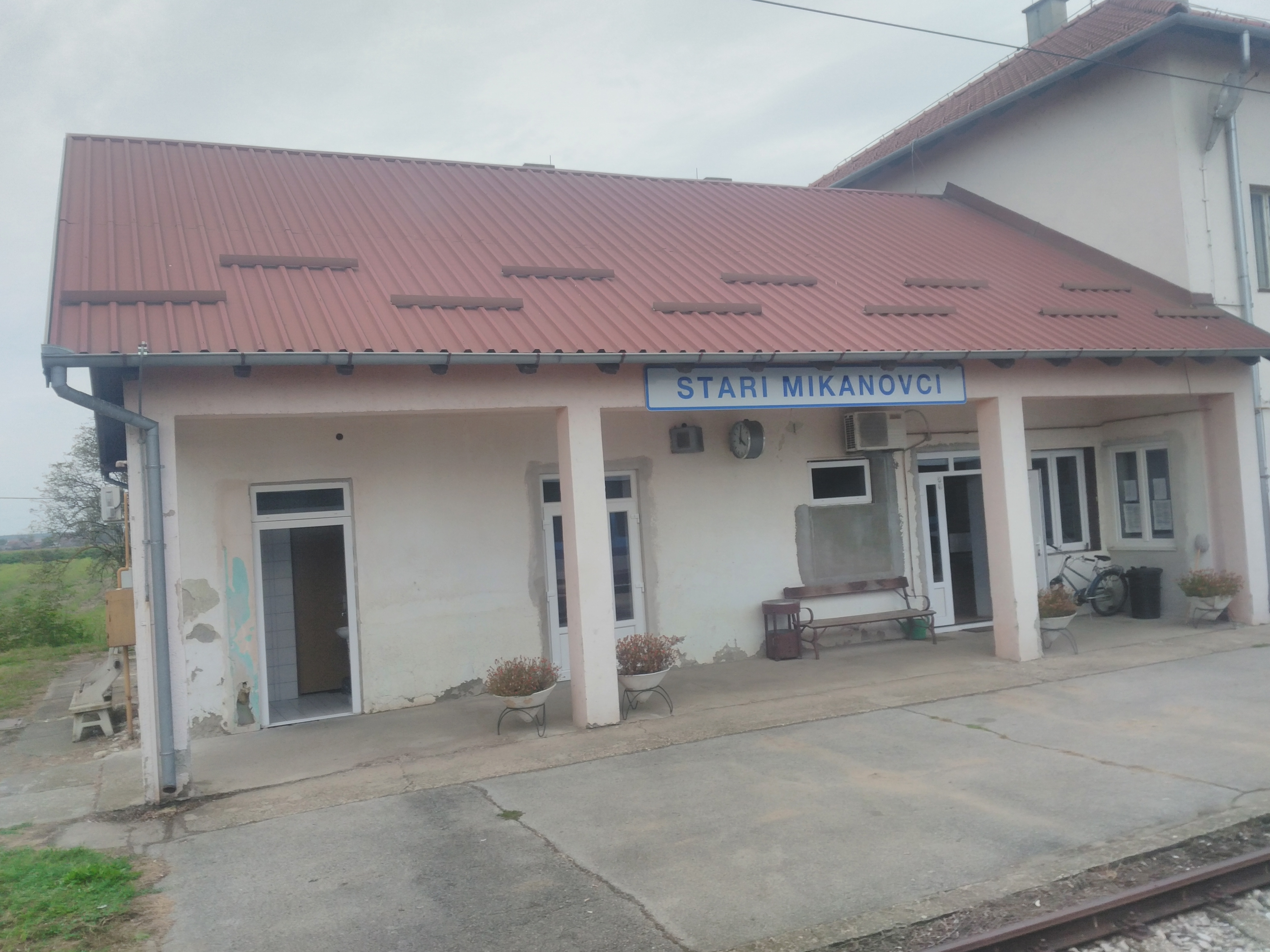 Stari Mikanovci Train Station.